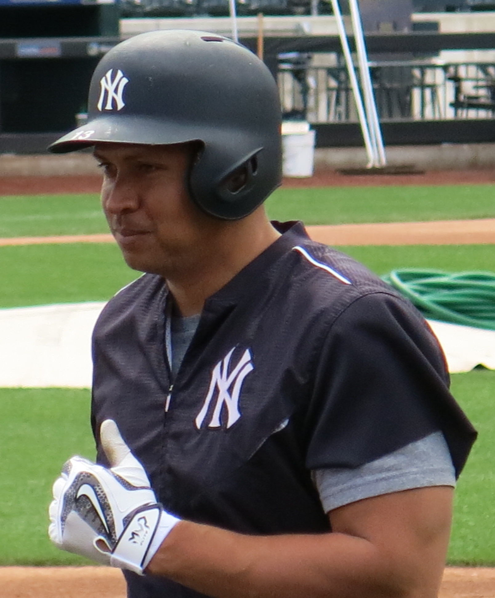 Alex Rodriguez of the New York Yankees, August 2, 2016.